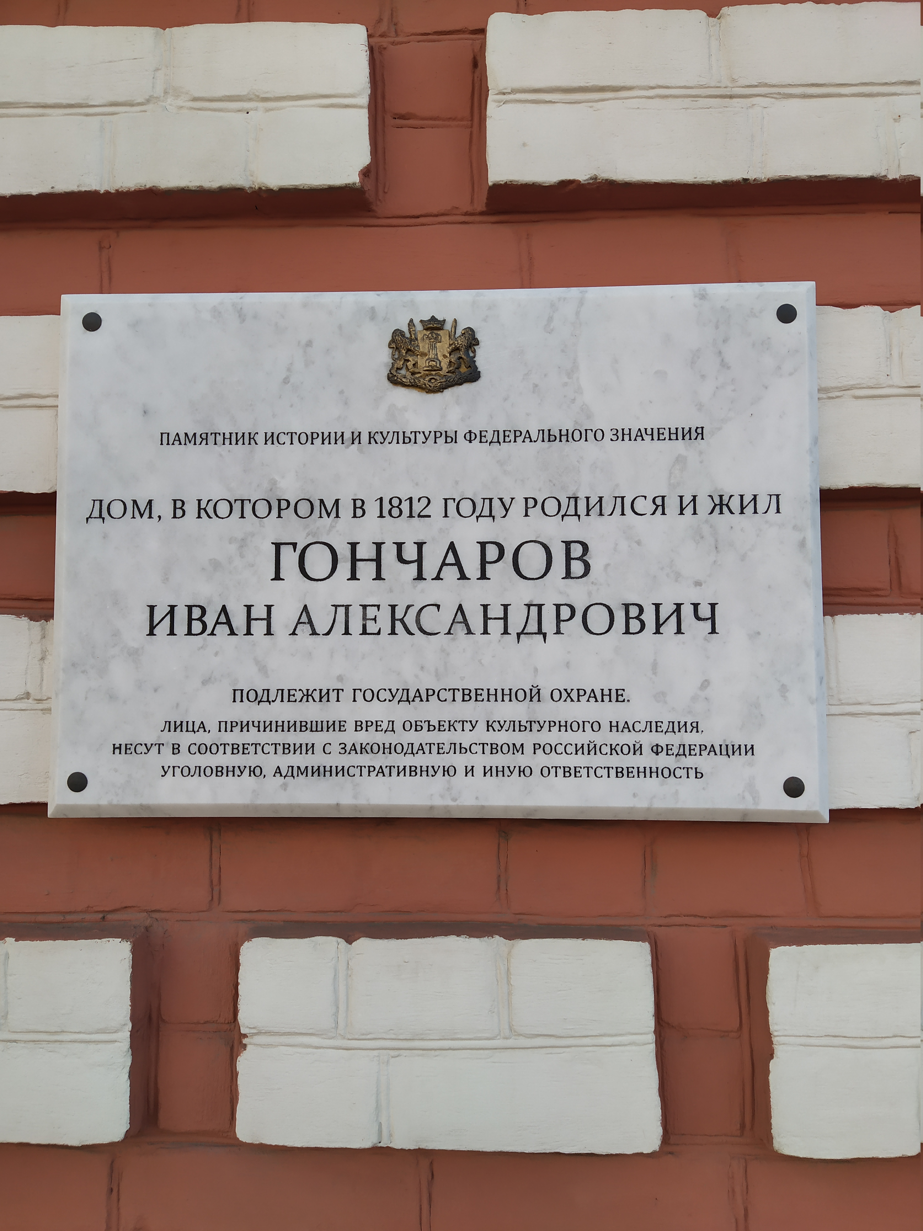 The 19th International Forum of Young Writers of Russia, CIS Countries and Abroad. September 15 - September 21, 2019. Ulyanovsk, Russia.